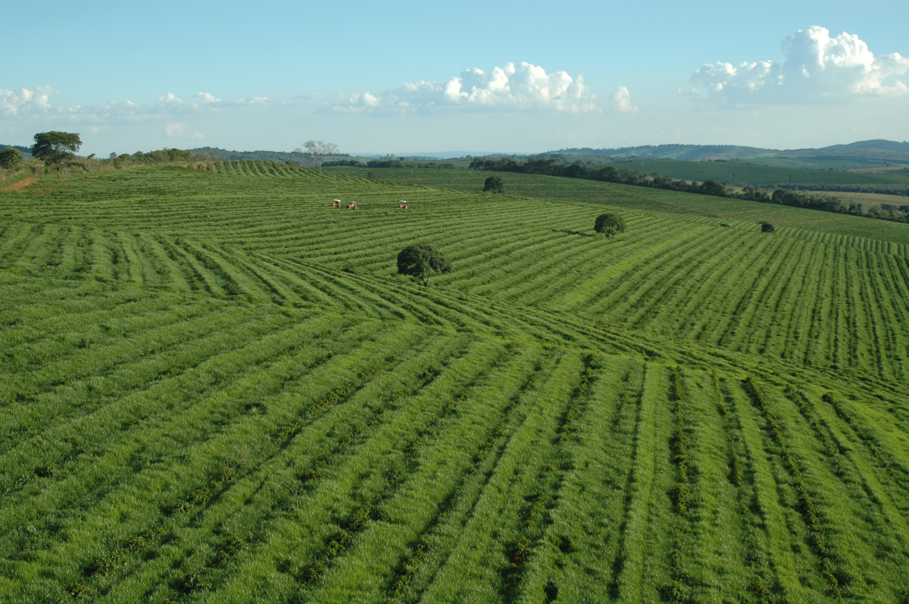 Coffee plantation Da Lagoa close to Santo Antônio do Amparo, Minas Gerais, Brazil.